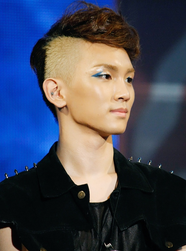 Key at the Busan Sea Festival on August 1, 2010.Português do Brasil: Key no Busan Sea Festival em 1 de agosto de 2010.